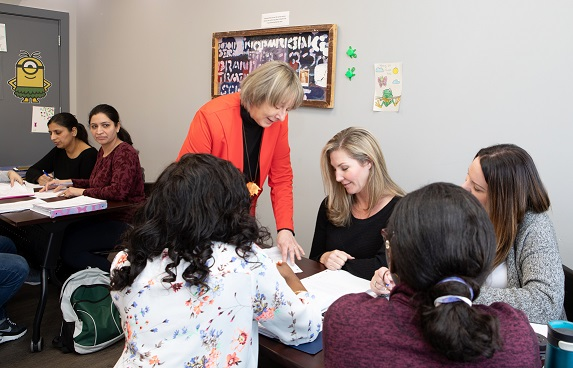 Ashton College classroom